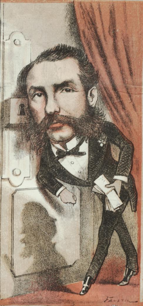 Caricature of Ignatius Pollaky